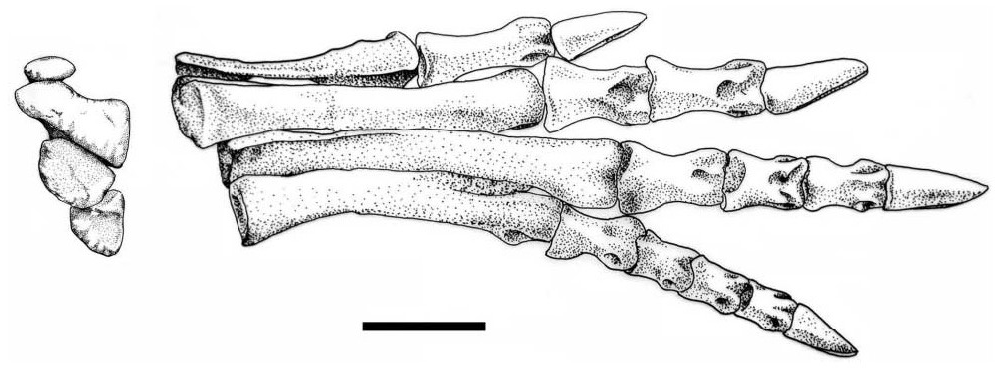 Archaeoceratops oshimai (IVPP V 11115, paratype), right pes in dorsal view (scale bar 2 cm).